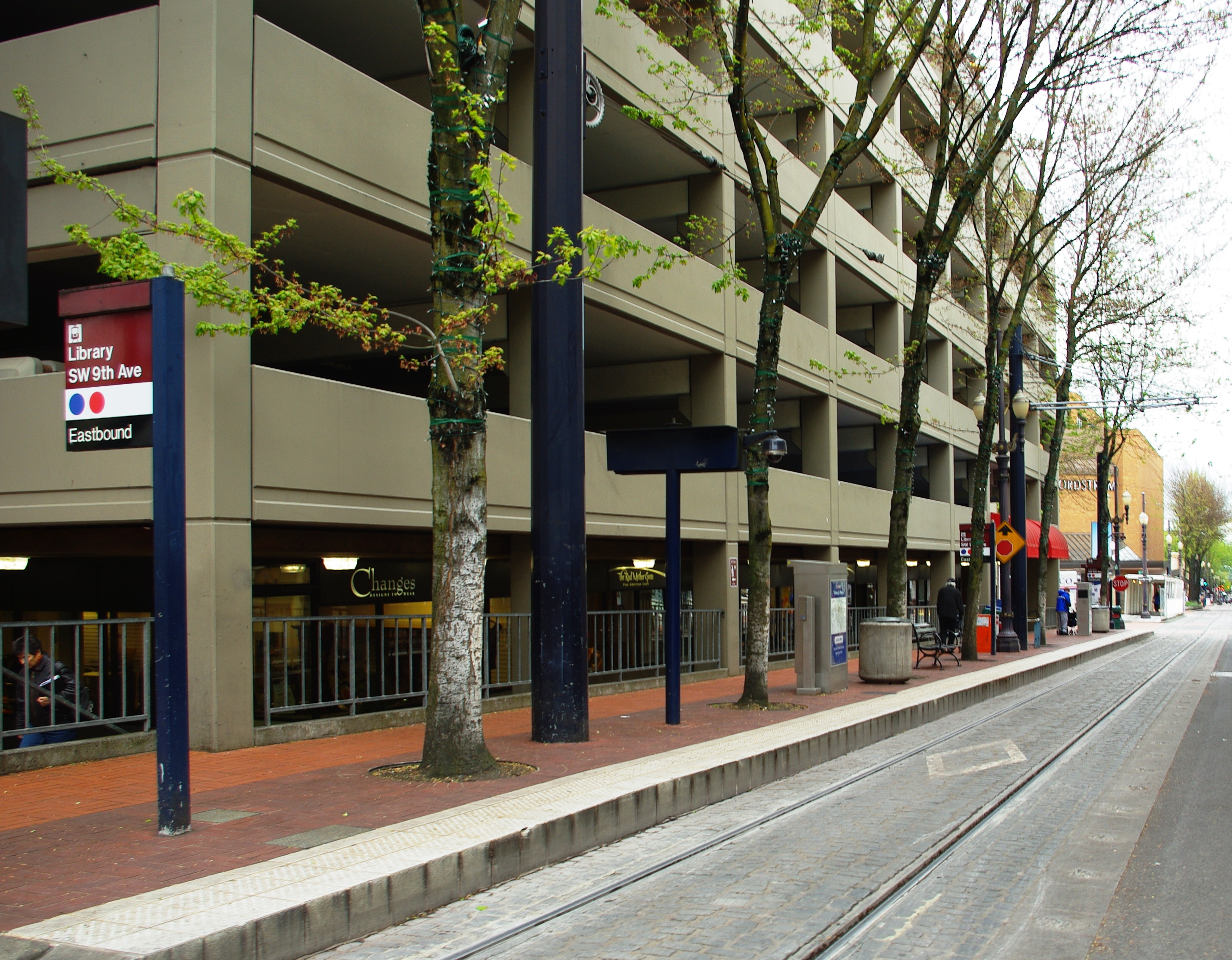 Library/Southwest 9th Avenue MAX station in Portland, Oregon.